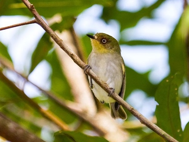 Phylloscartes sylviolus at Serra das Andorinhas (Iporanga, Sao Paulo, Brazil)